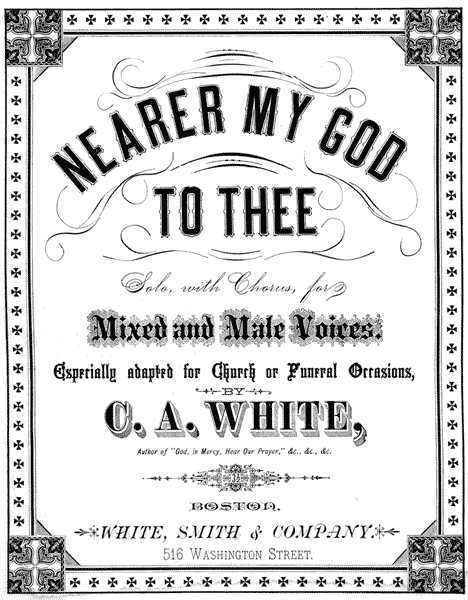 Cover of sheet music for "Nearer, My God, to Thee" [words by Sarah Flower Adams, music by Lowell Mason], adapted by C.A. White, Boston: White, Smith & Co., 1881